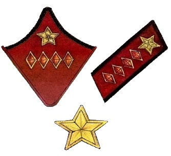 Rank insignia of the Workers' and Peasants' Red Army (WPRA), here "Army commissar 1st Class" (equivalent: “Komandarm 1st rank” / from 1940 “General of the Army”, comparable to OF-9) Army from 1935 to 1942 – collar patch big: overcoat, collar patch small: jacket, sleeve insignia.